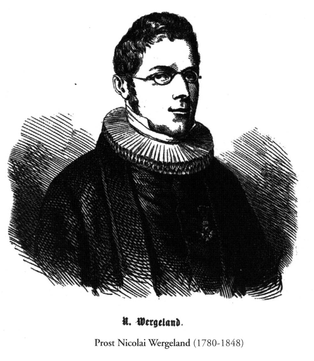 Portrait of Nicolay Wergeland, priest, politician and father to author Henrik Wergeland